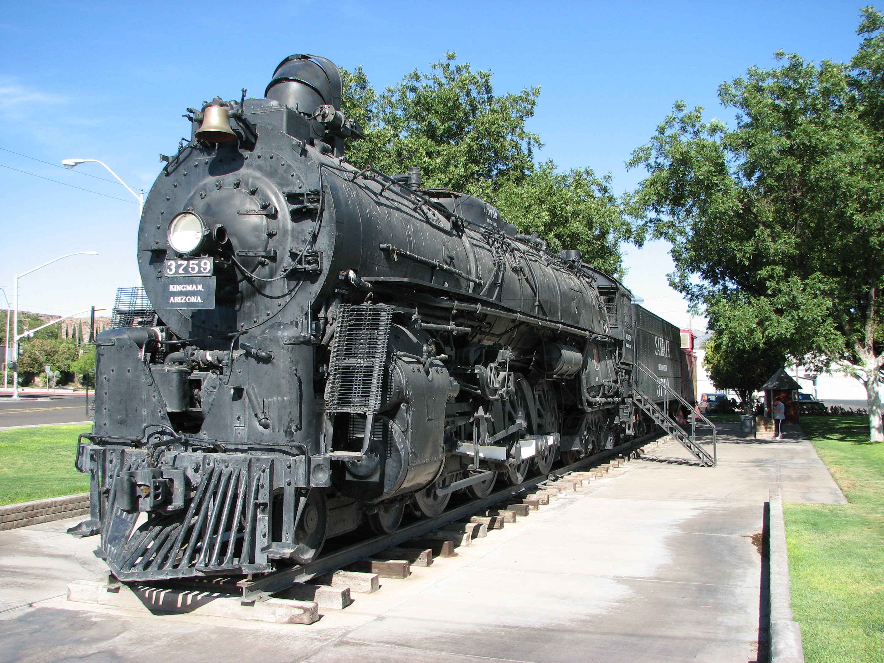 Santa Fe 3759, a former Atchison, Topeka and Santa Fe Railway locomotive in Kingman, Arizona.